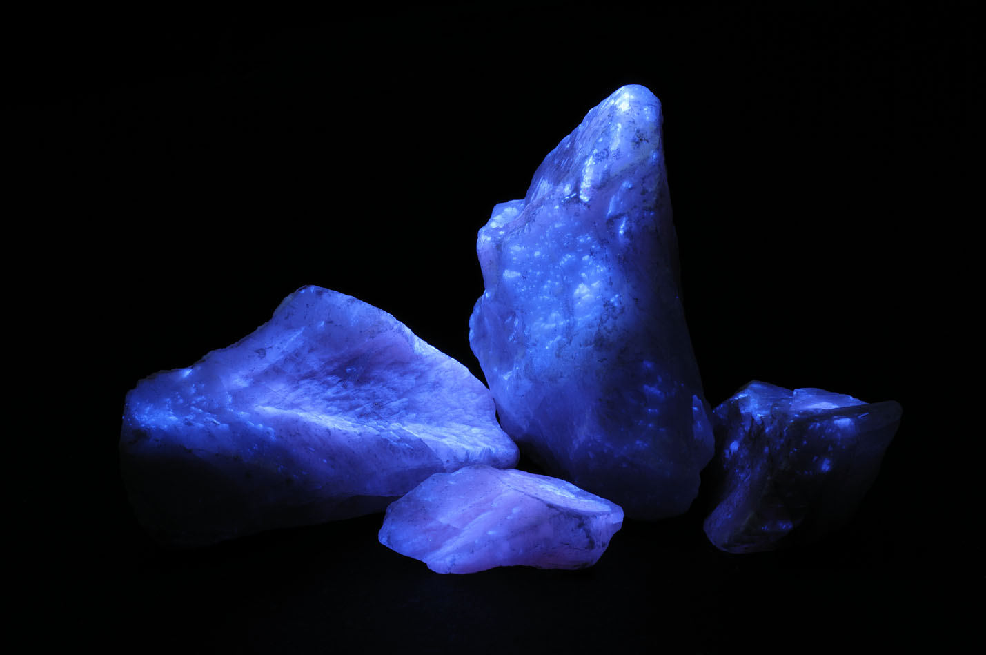 Photograph showing a selection of calcite specimens held by the Herbert Art Gallery & Museum, Coventry. This photograph shows how the specimens fluoresce blue under short wave UV light. Images showing the same specimens under visible light and long wave UV are also available on the Commons.